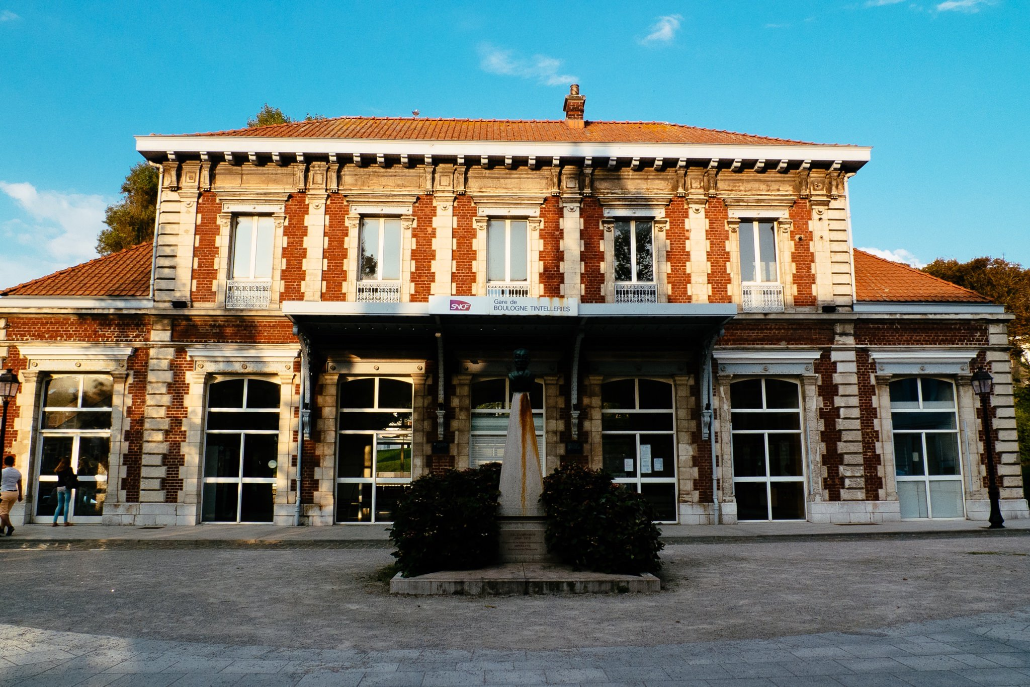 The train station Boulogne-Tintelleries in France.